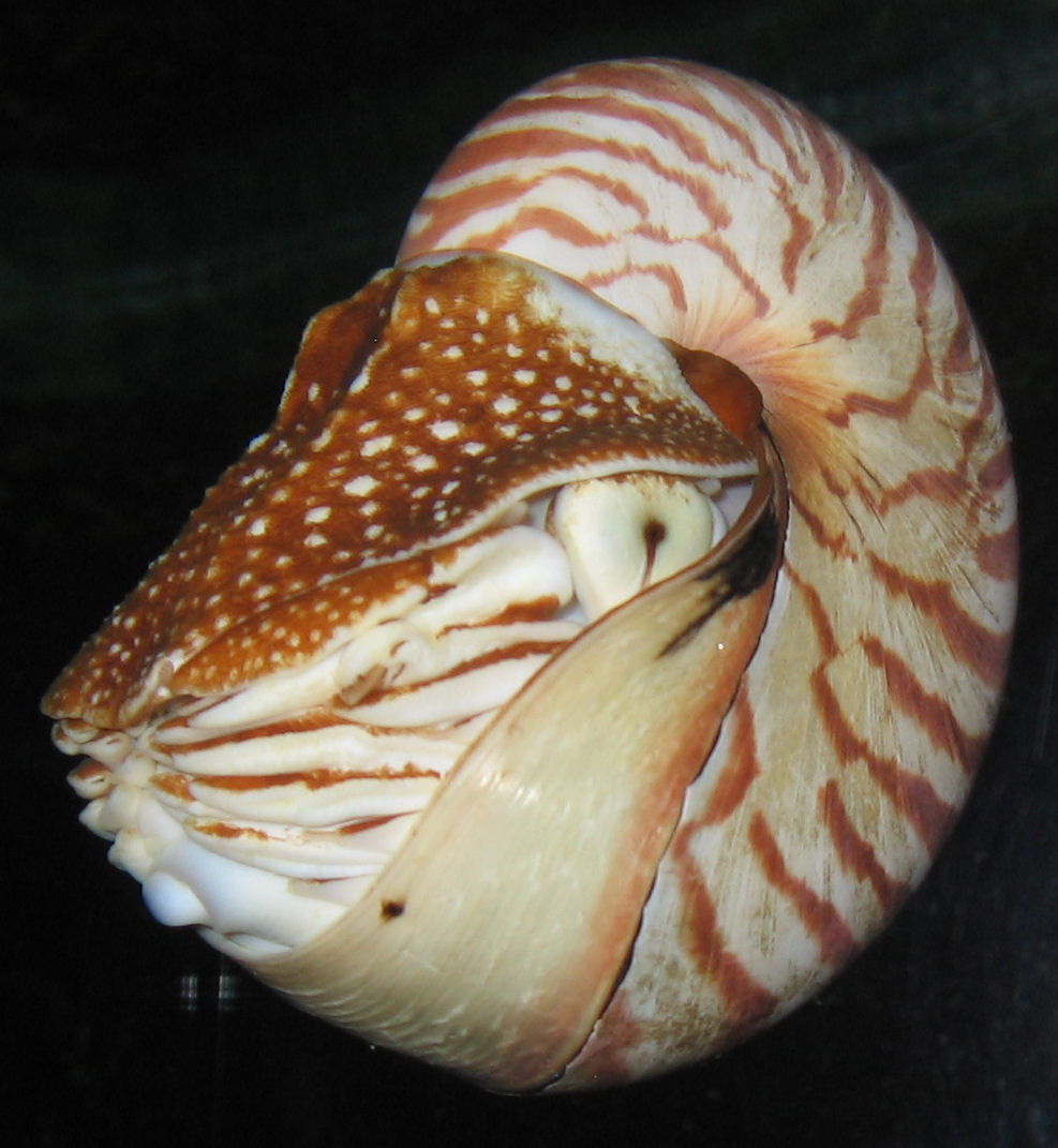 Nautilus (Henry Doorly Zoo)